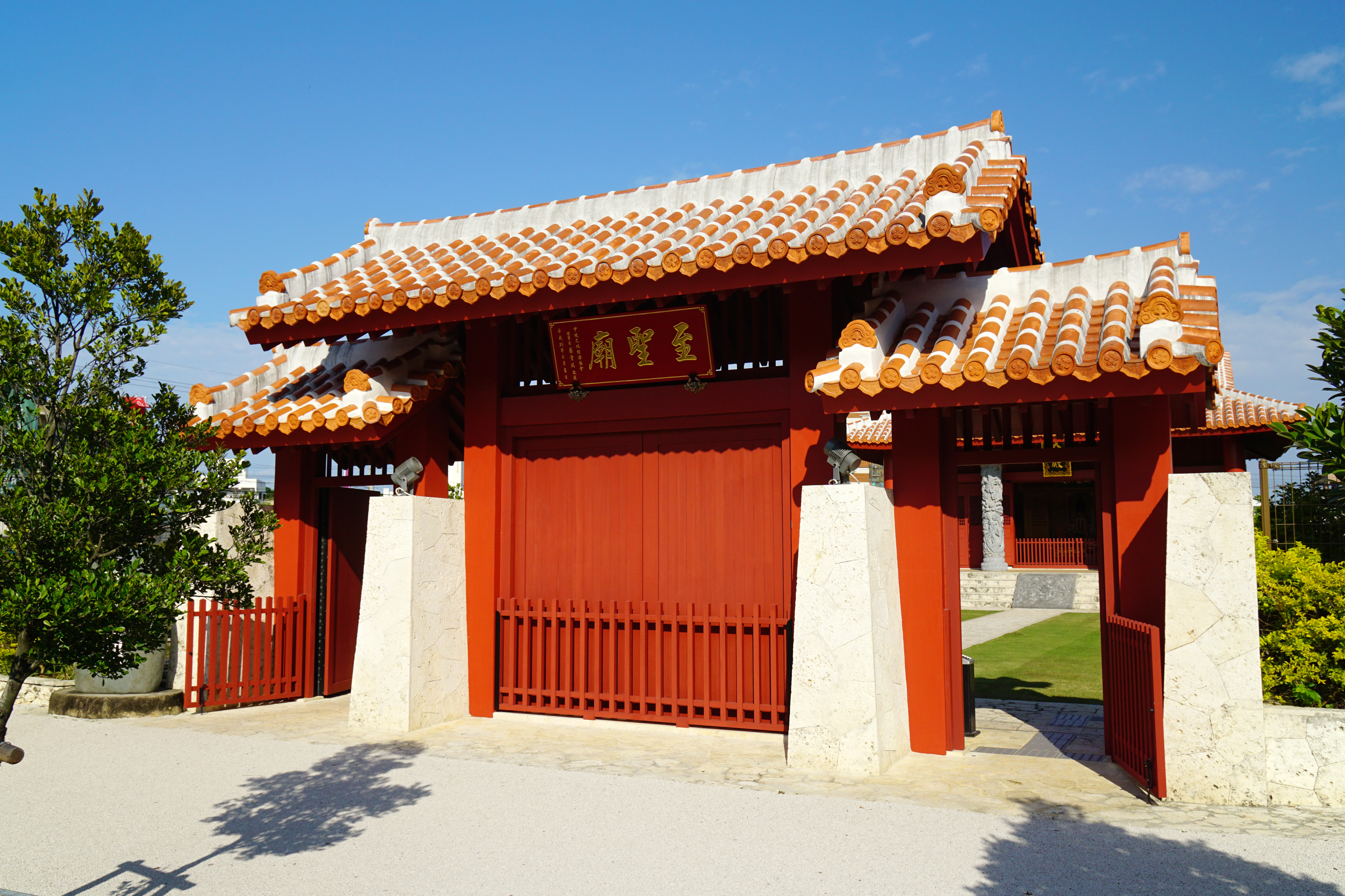 Kume Shiseibyo in Naha, Okinawa prefecture, Japan